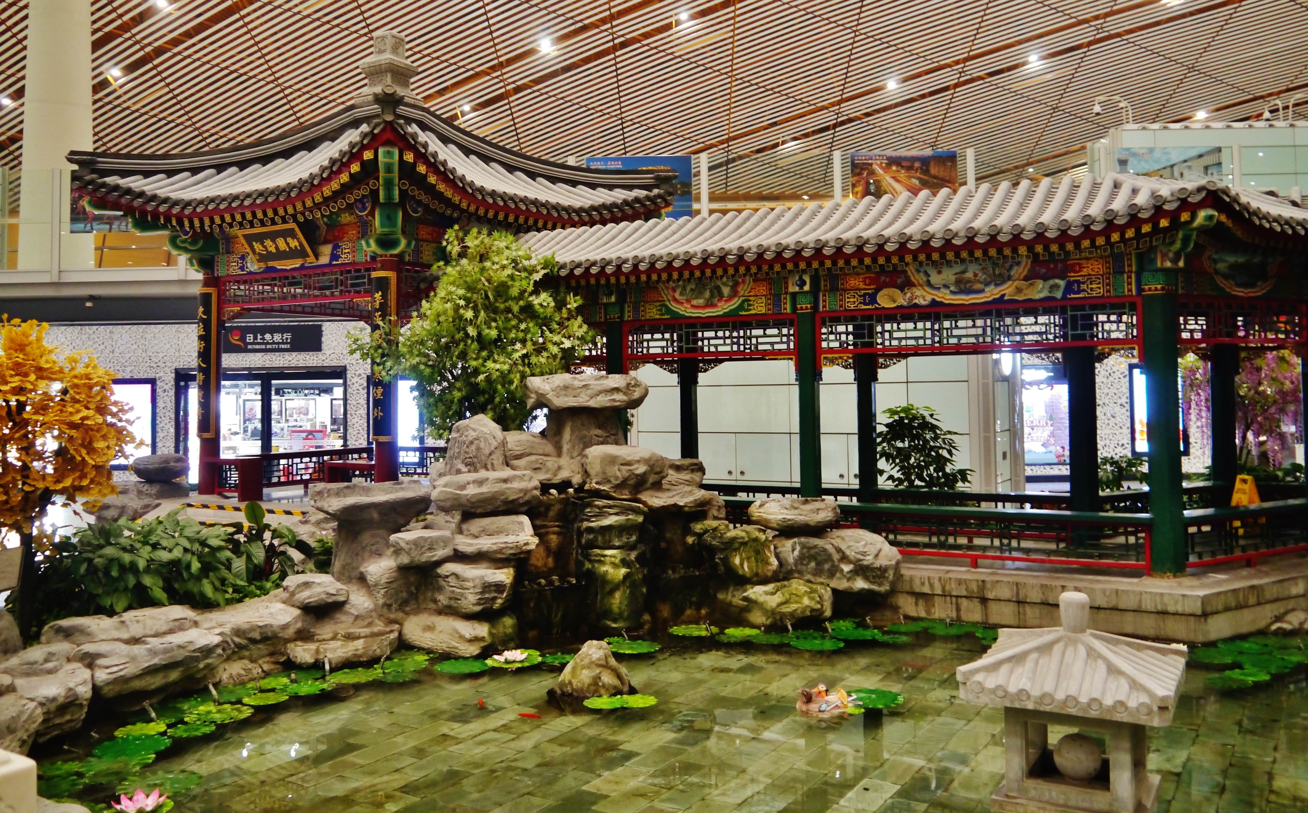 Waiting Hall of Capital Airport Beijing 2016, People's Republic of China